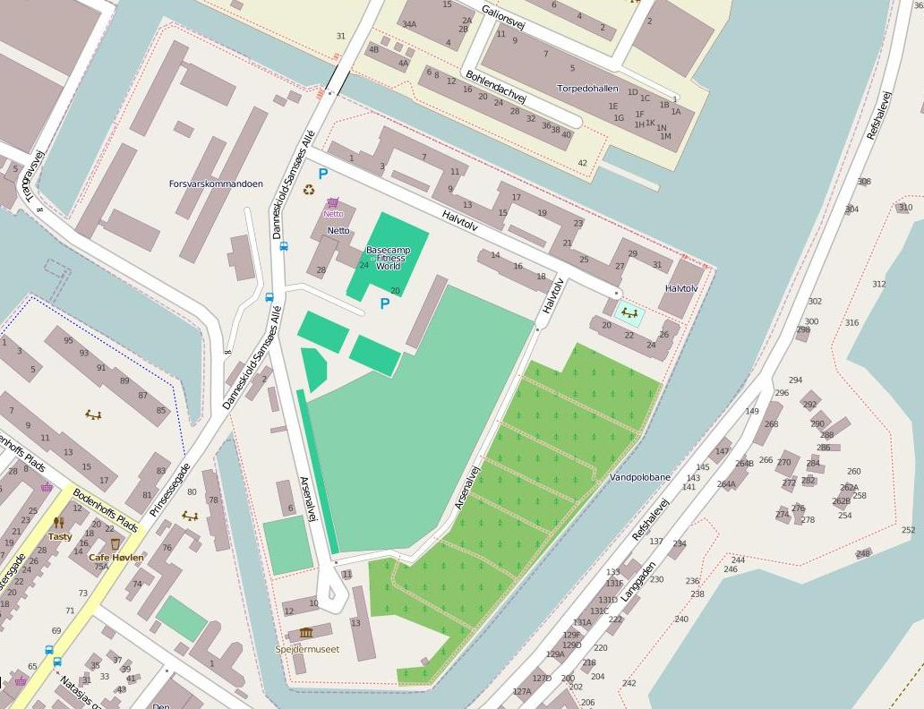 Naval Base Copenhagen